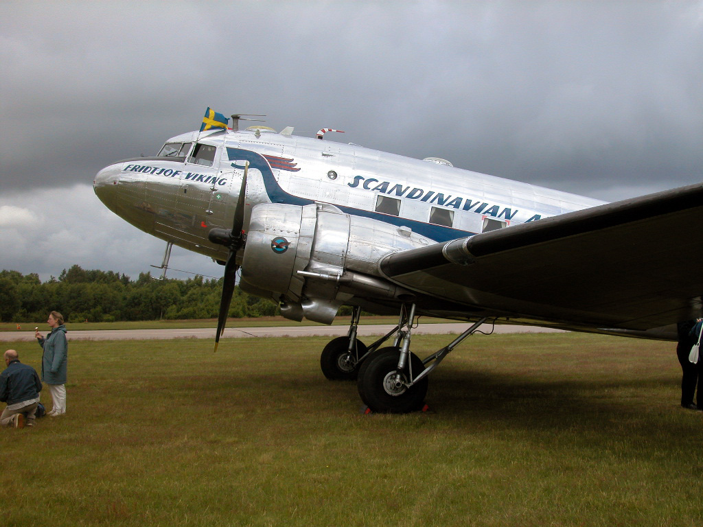 Flygande Veteraner's Douglas DC-3C Daisy at Kjellers Airfield, outside Oslo, Norway. This photo is taken by me, Kapten Kaos, and is hereby released in the Public Domain.